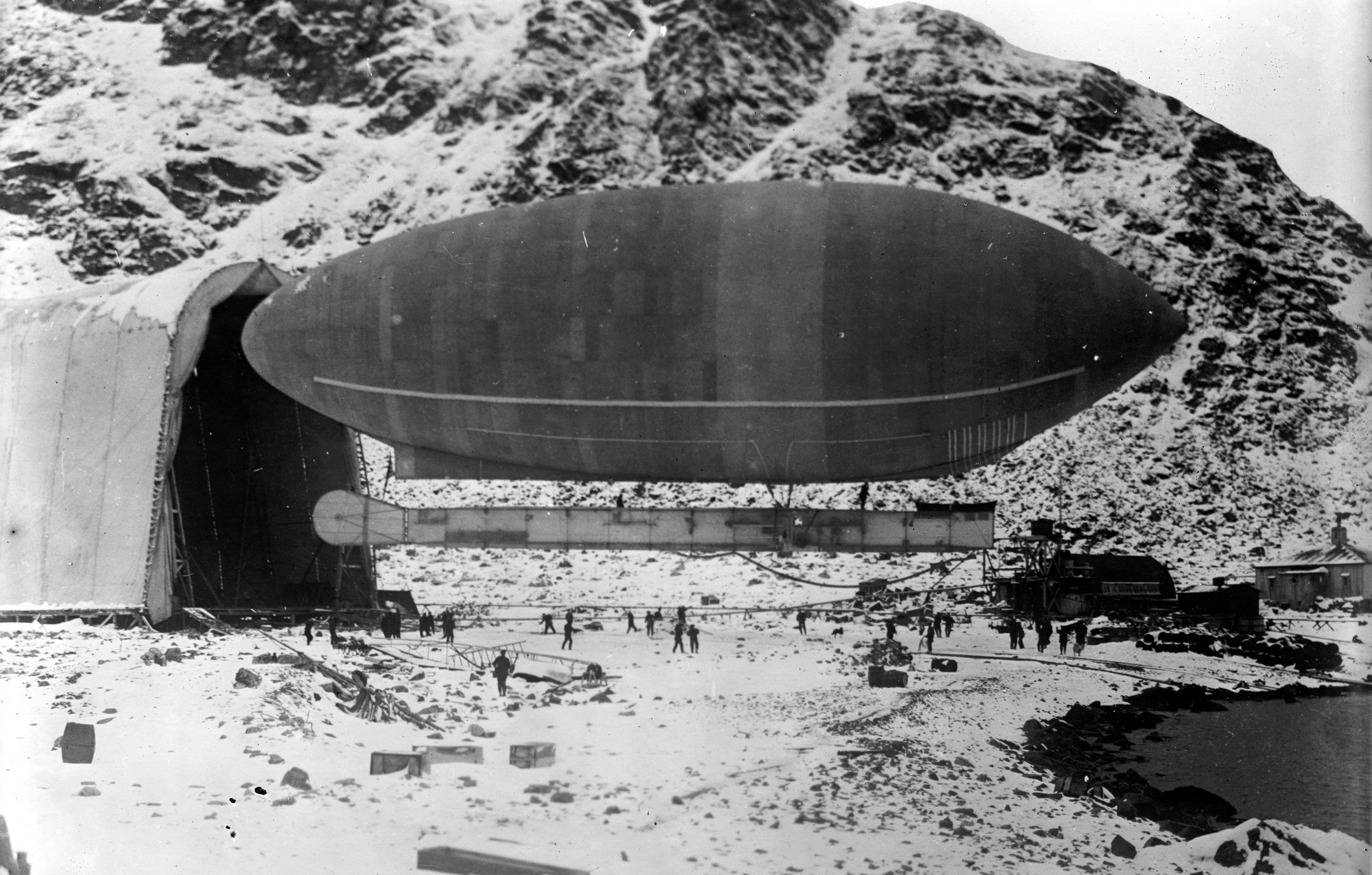 Title: Blimp-Wellman air ship, Spitzbergen